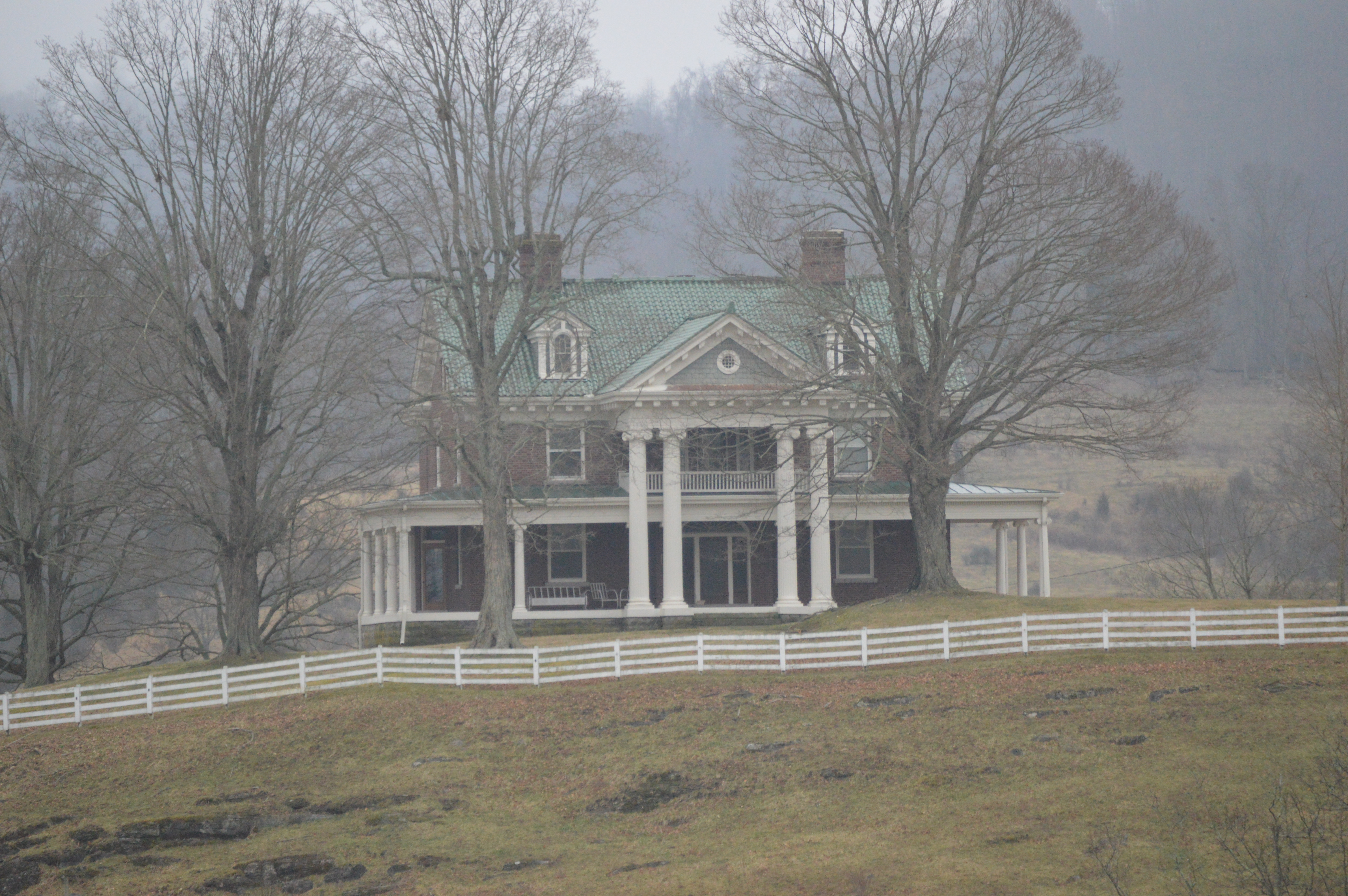 Front of Carter Hill, located on the southern side of State Route 71 west of Lebanon in Russell County, Virginia, United States. Built in 1922, it is listed on the National Register of Historic Places.